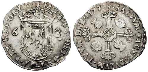 Scotland. James VI of Scotland. 1577. Half Merk - “Noble” (6.57 gm). Crowned Scottish arms flanked by denomination: 6 and 8 Compound cross fleury, quartered with crowns and thistles. Burns 10; Seaby 5478. Fine, light surface cracks.